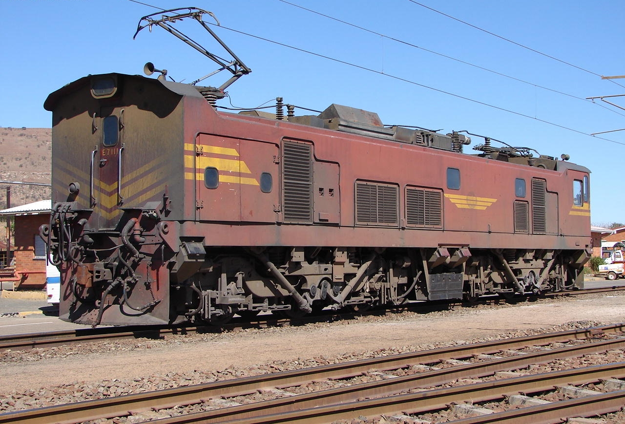 SAR Class 7E1 E7111Location: Vryheid, Kwa-Zulu Natal